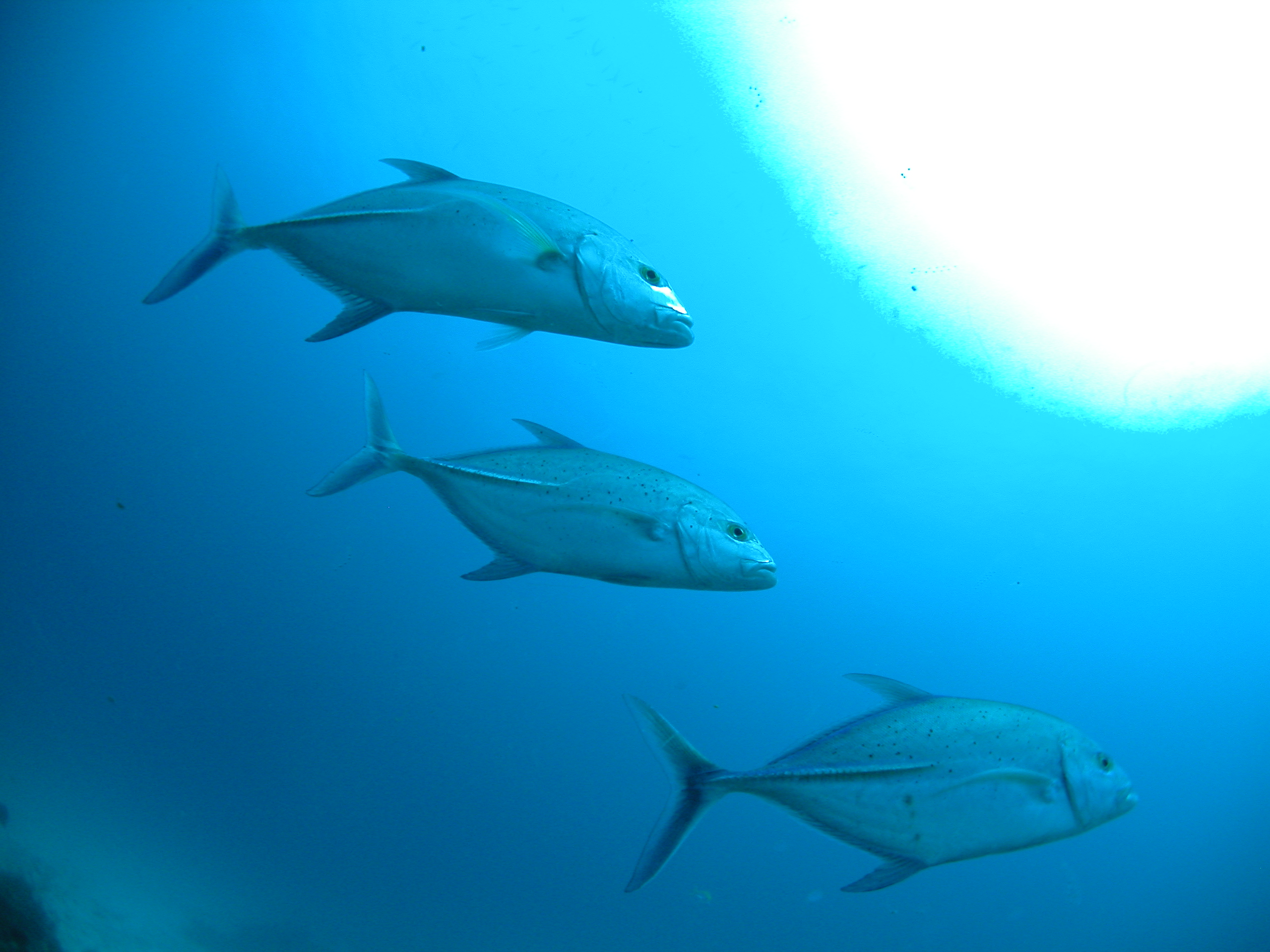 Flickr tool output: Description Bluefin trevally (Caranx melampygus) in Khaolak, Thailand Date14 March 2003, 16:27SourceHunters(カスミアジ)AuthorTANAKA Juuyoh (田中十洋) Licensing